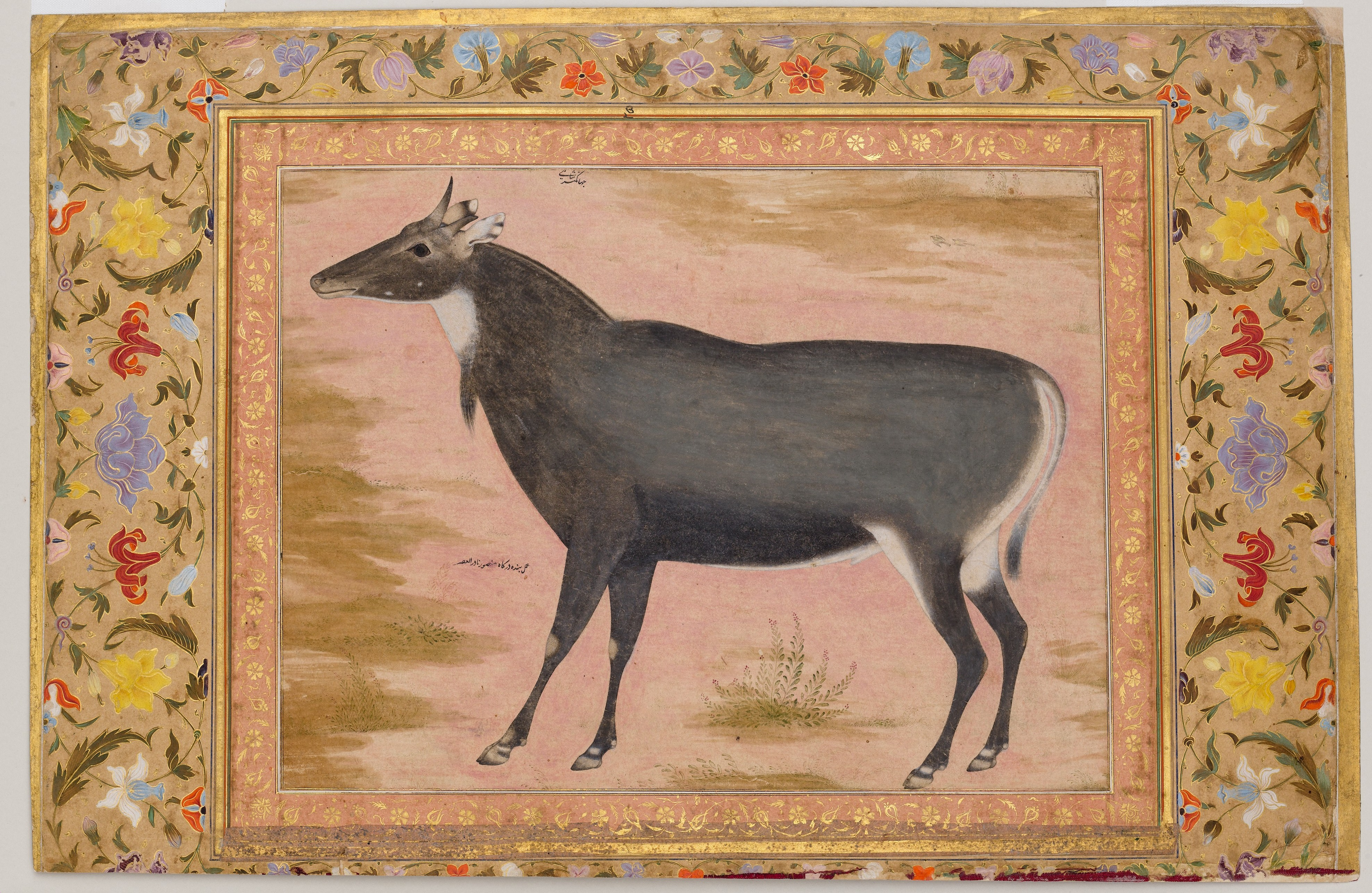 Nilgai (blue bull): Leaf from the Shah Jahan Album, Mughal, period of Jahangir (1605–27), ca. 1620 By Mansur India Ink, opaque watercolor, and gold on paper H. 7 1/8 in. (18.2 cm), W. 9 1/2 in. (24.2 cm) Purchase, Rogers Fund and The Kevorkian Foundation Gift, 1955 (55.121.10.13)